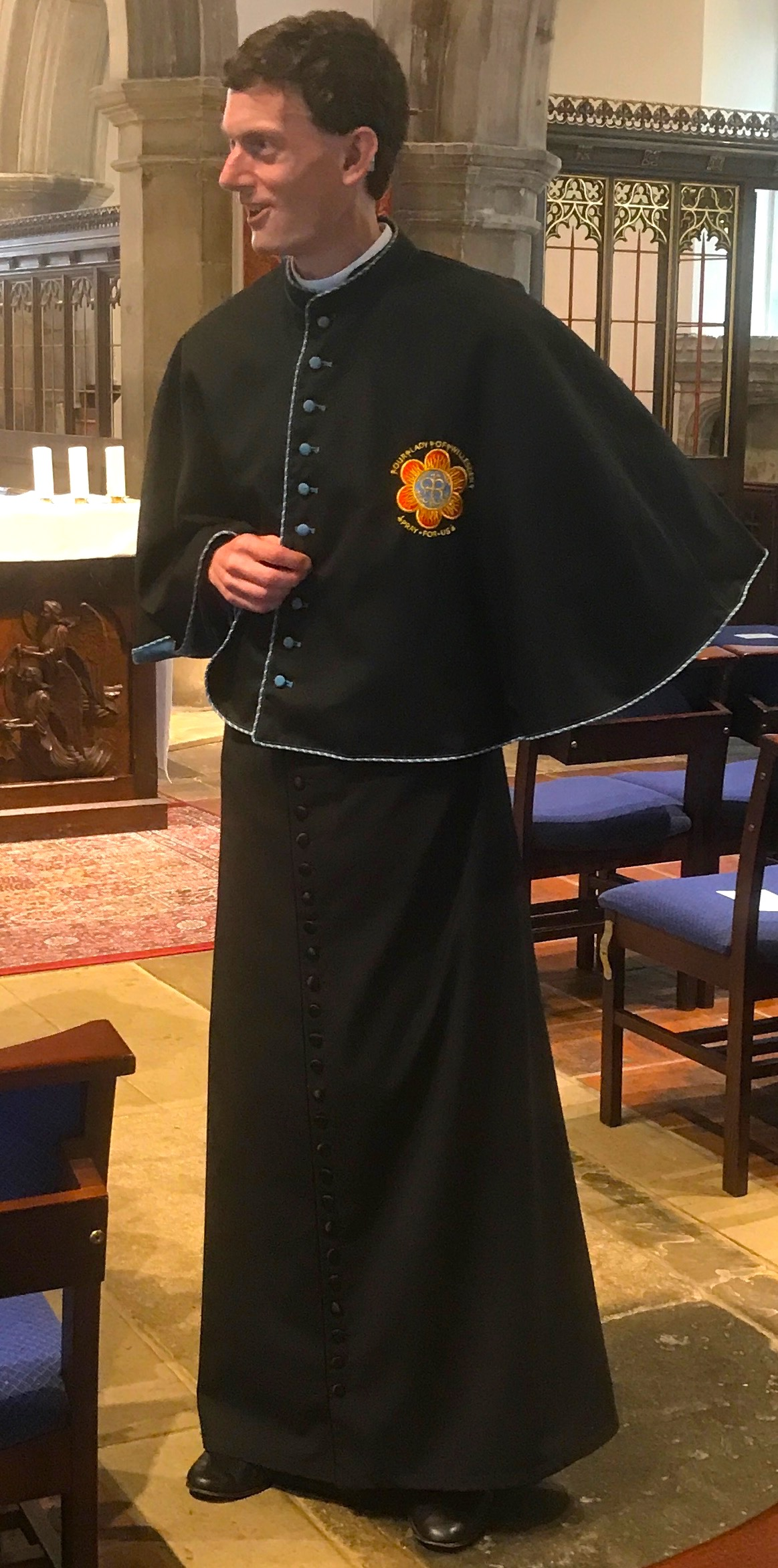 A chapter priest of the Shrine of Our Lady of Willesden, wearing the distinctive mozzetta of that rank.